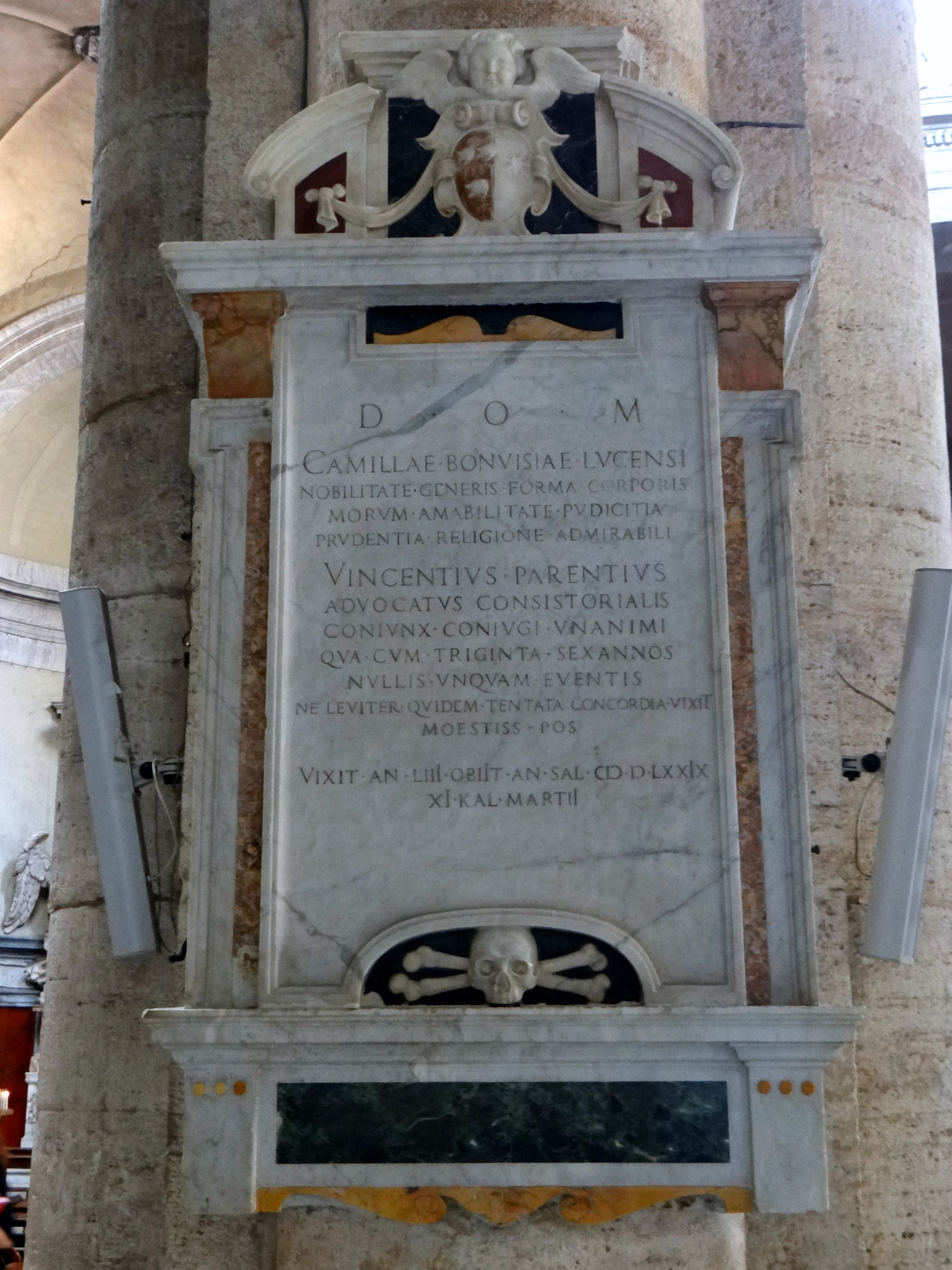 The funeral monument of Camilla Buonvisi in the Basilica of Santa Maria del Popolo, Rome (after 1579).